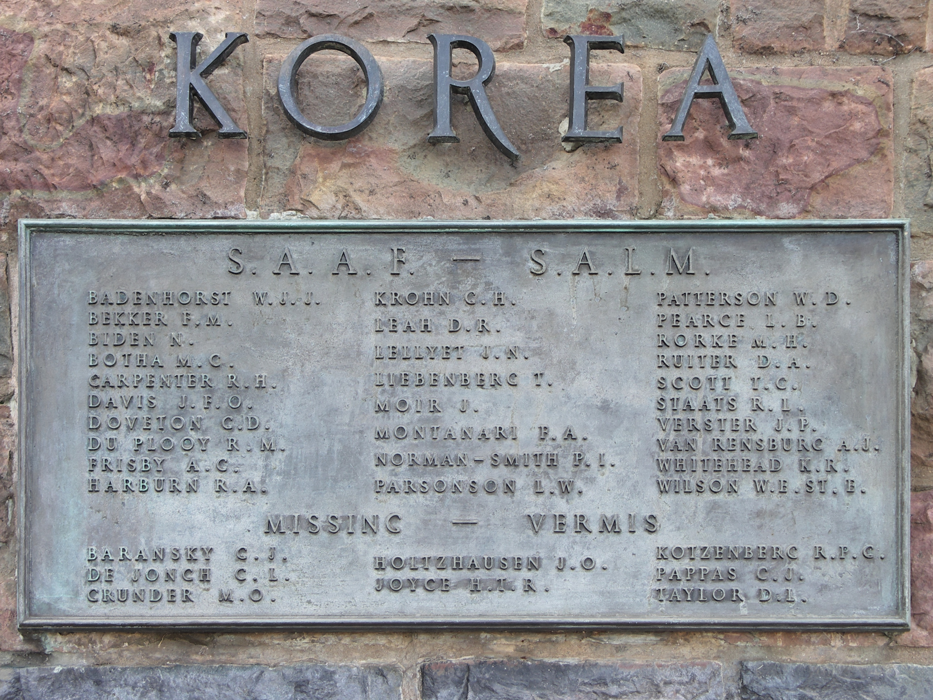 Memorial plaque for South Africans that lost their lives during the Korean War, located in the gardens of the Union Buildings, Pretoria, South Africa.